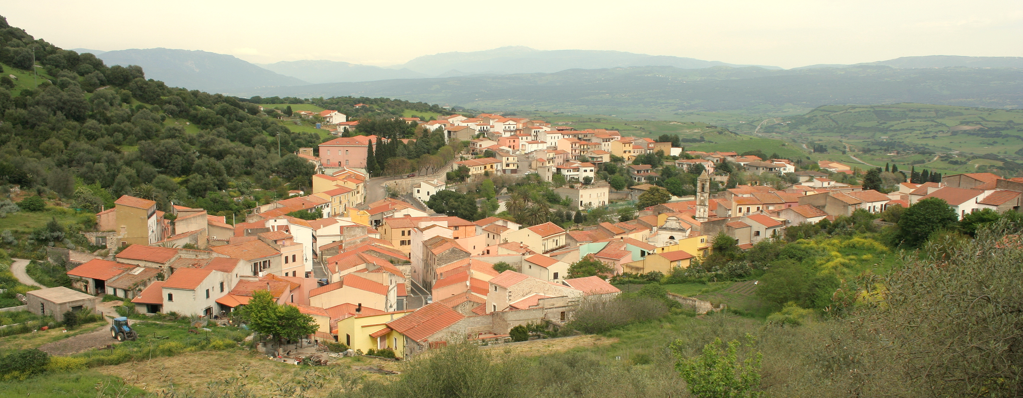 Panoramic view of Laerru